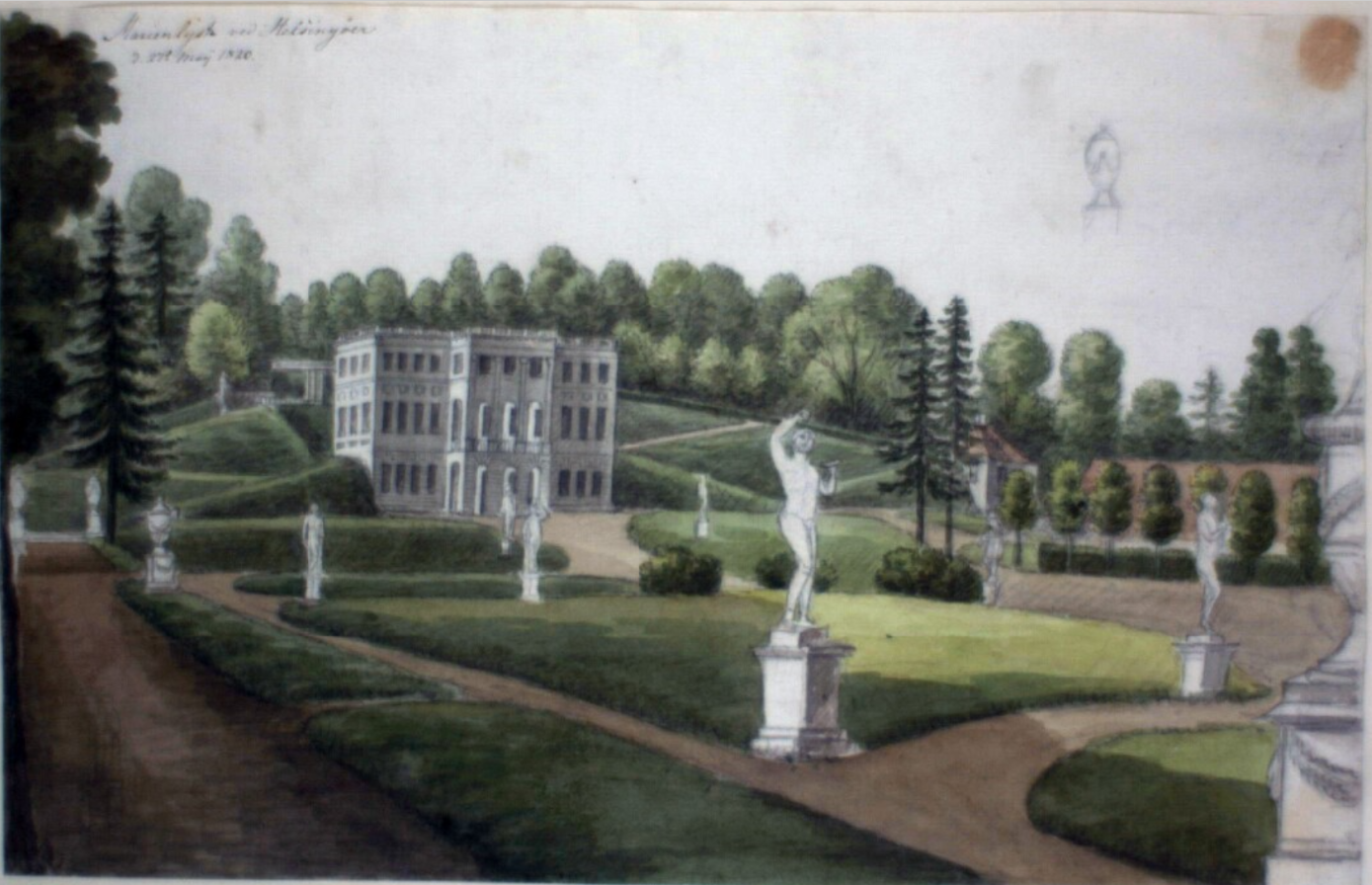 Marienlyst ved Helsingöer d. 27. May 1820